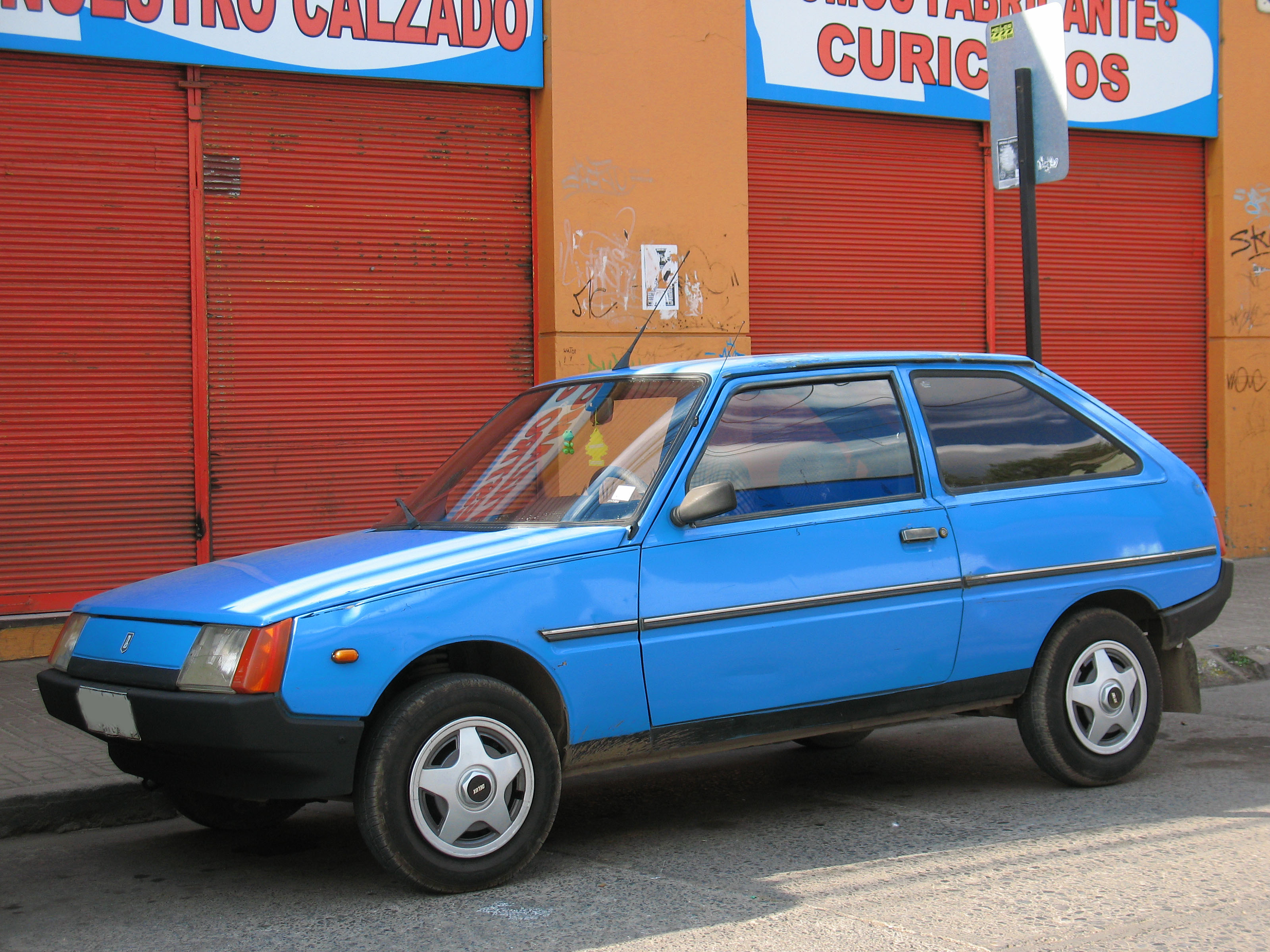 In ChiLe this was sold as Lada, not ZAZ